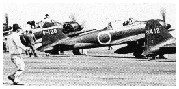 A6M fighters of the Imperial Japanese Navy's Genzan Air Group at Genzan (now called Wonsan), Korea in 1940 or 1941. These are Reisen 21s constructed by the Nakajima company.